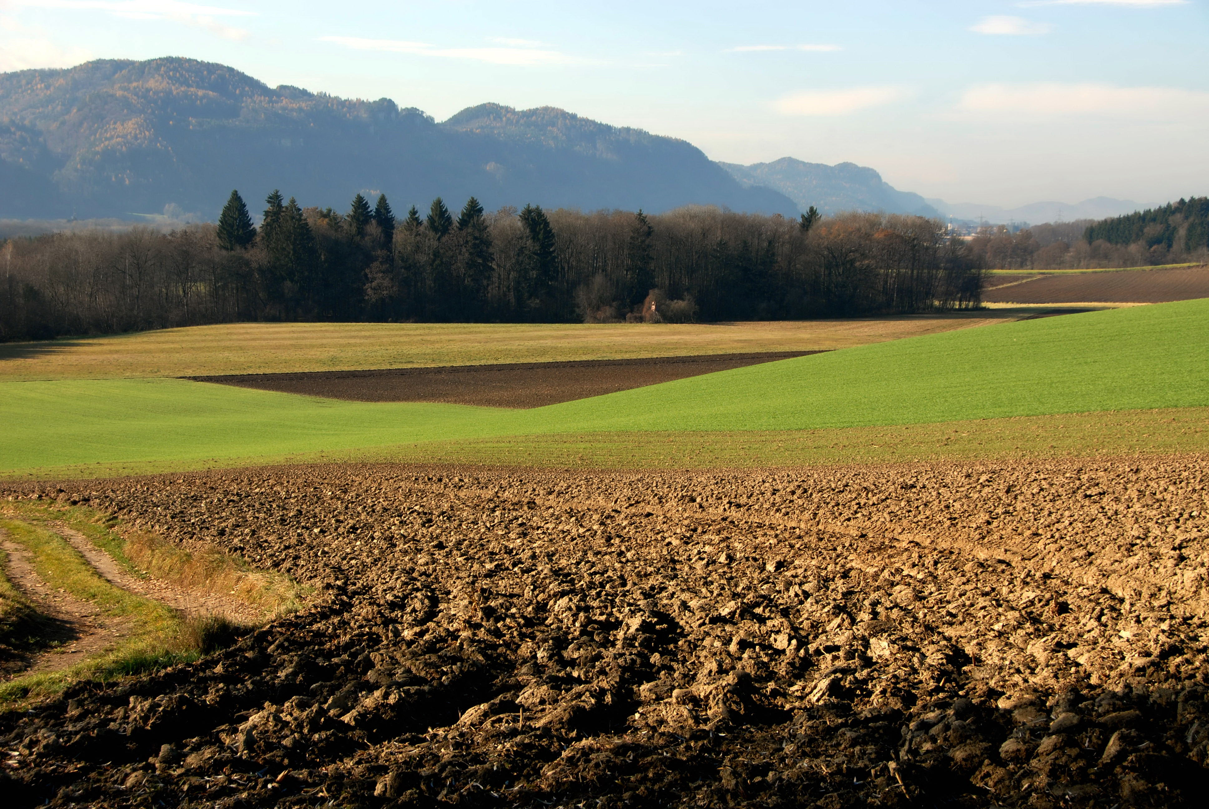 Landscape near Lind, market town Grafenstein, district Klagenfurt Land, Carinthia, Austria, EU